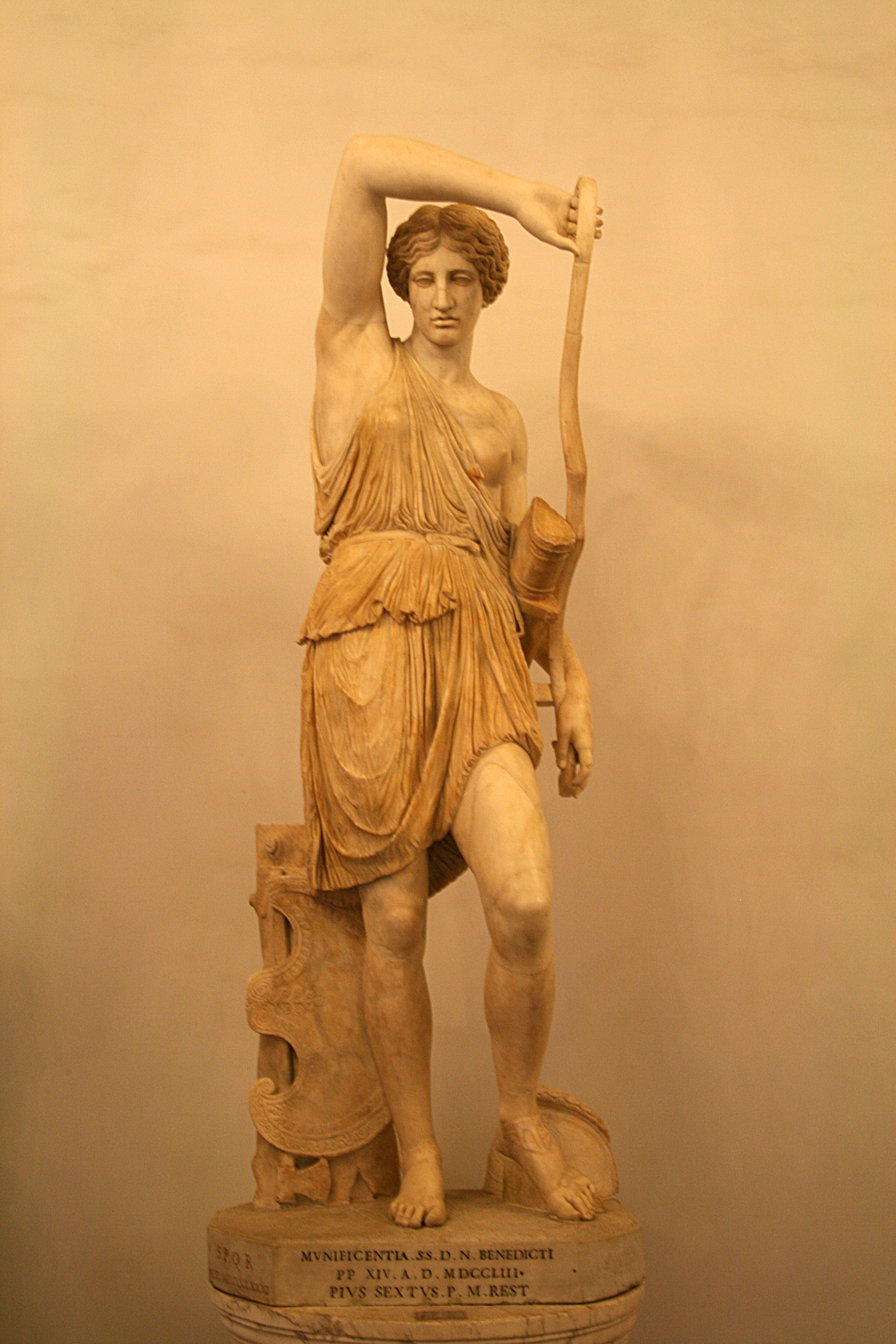 Statue of the Wounded Amazon of the Capitol-Mattei type. Marble